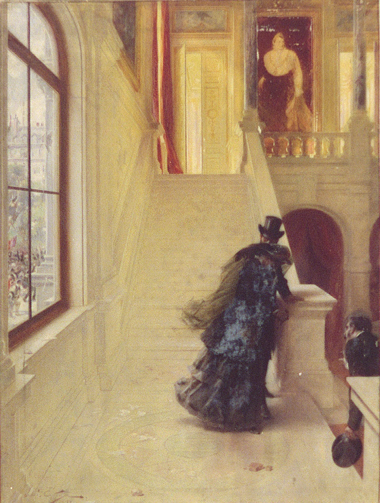 The empress Eugenie of France fleeing from the Tuileries Palace, 4 September 1870